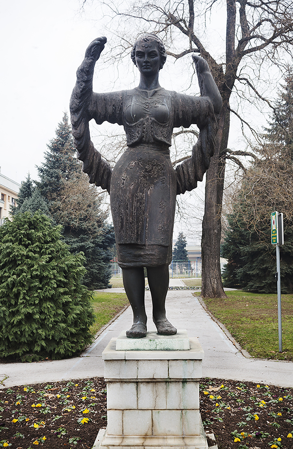 DIN (Tobacco Industry Nis) in Nis, 1926-1930.